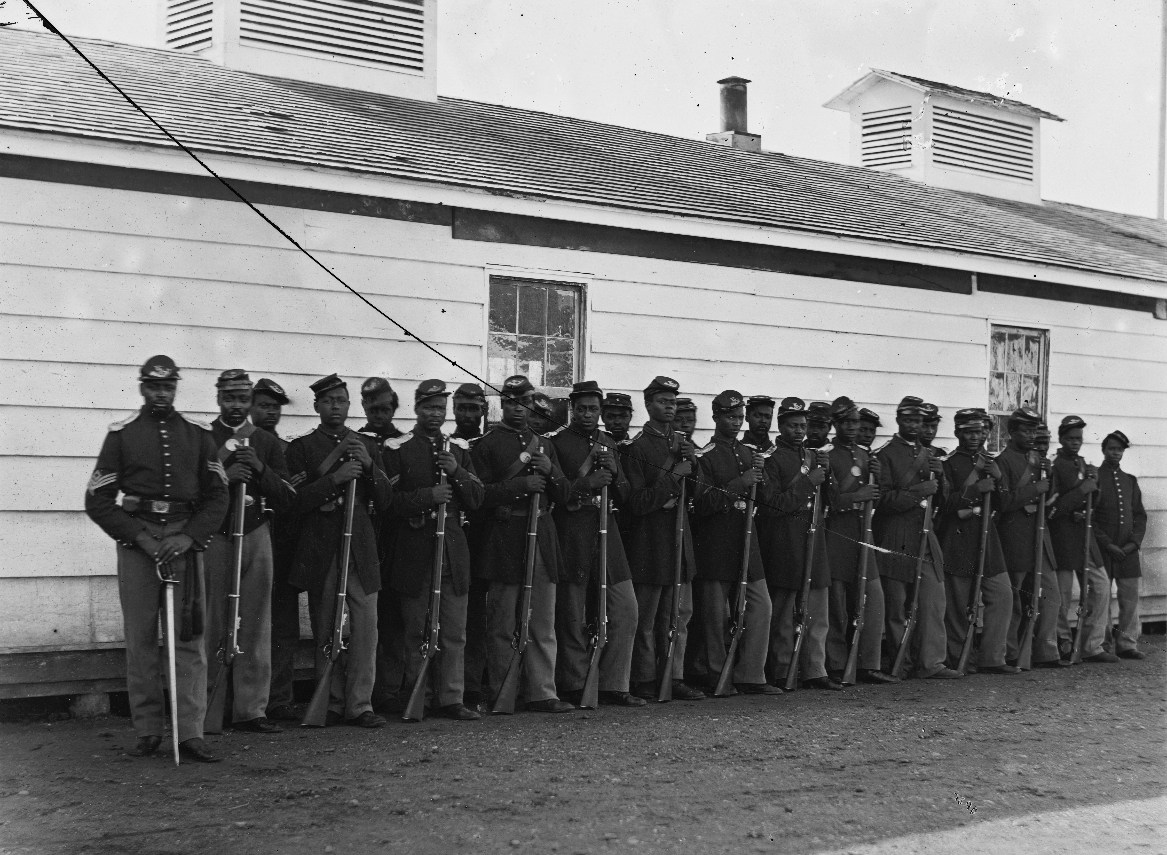 The men in this picture are from Company E, 4th United States Colored Infantry. Theirs was one of the detachments assigned to guard the nation's capital during the American Civil War of.